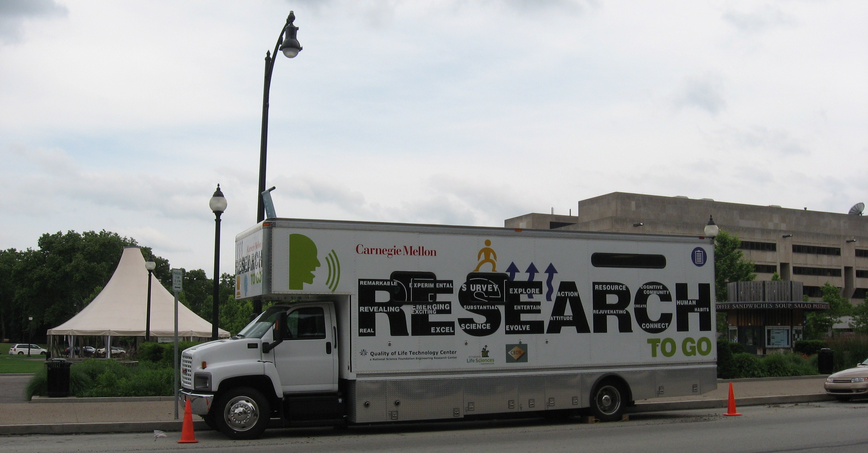 "Research To Go" van from Carnegie Mellon University at Schenley Plaza.40°26′35.7″N 79°57′11″W / 40.44325°N 79.95306°W